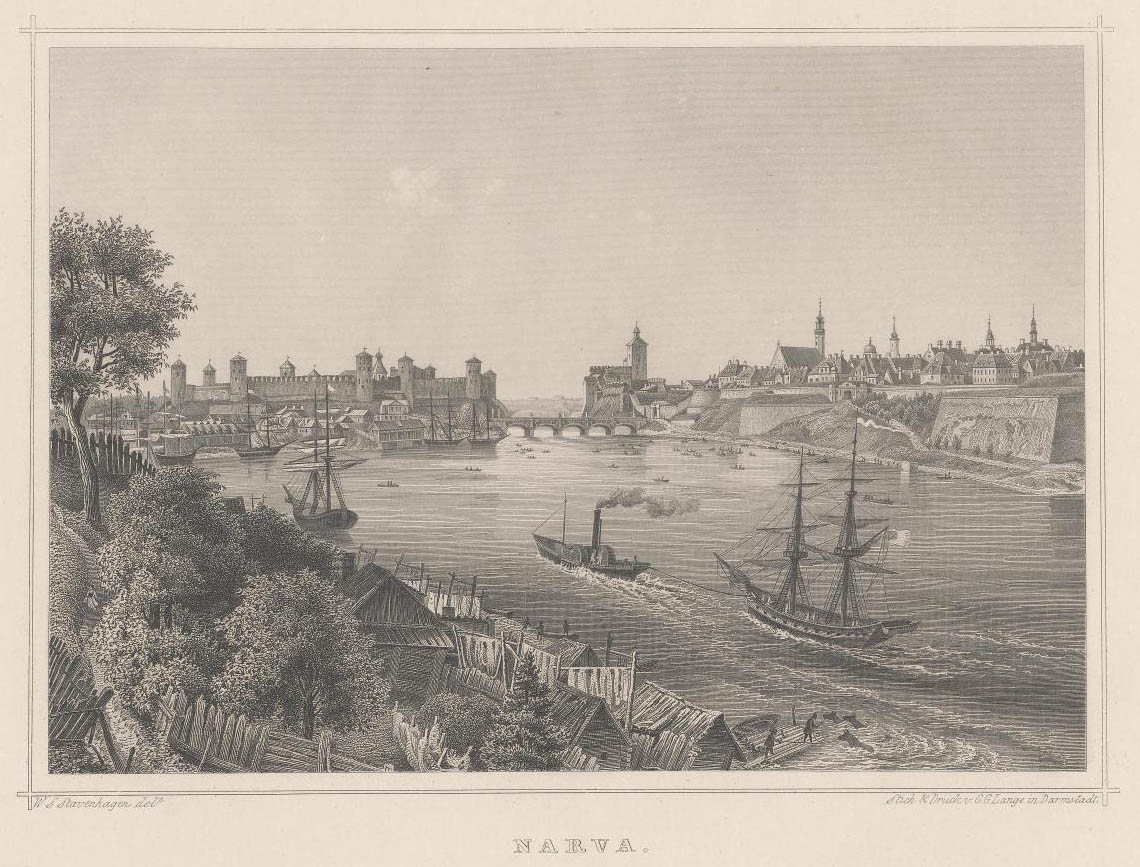 The Narva River between Narva and Ivangorod (a 1867 print).